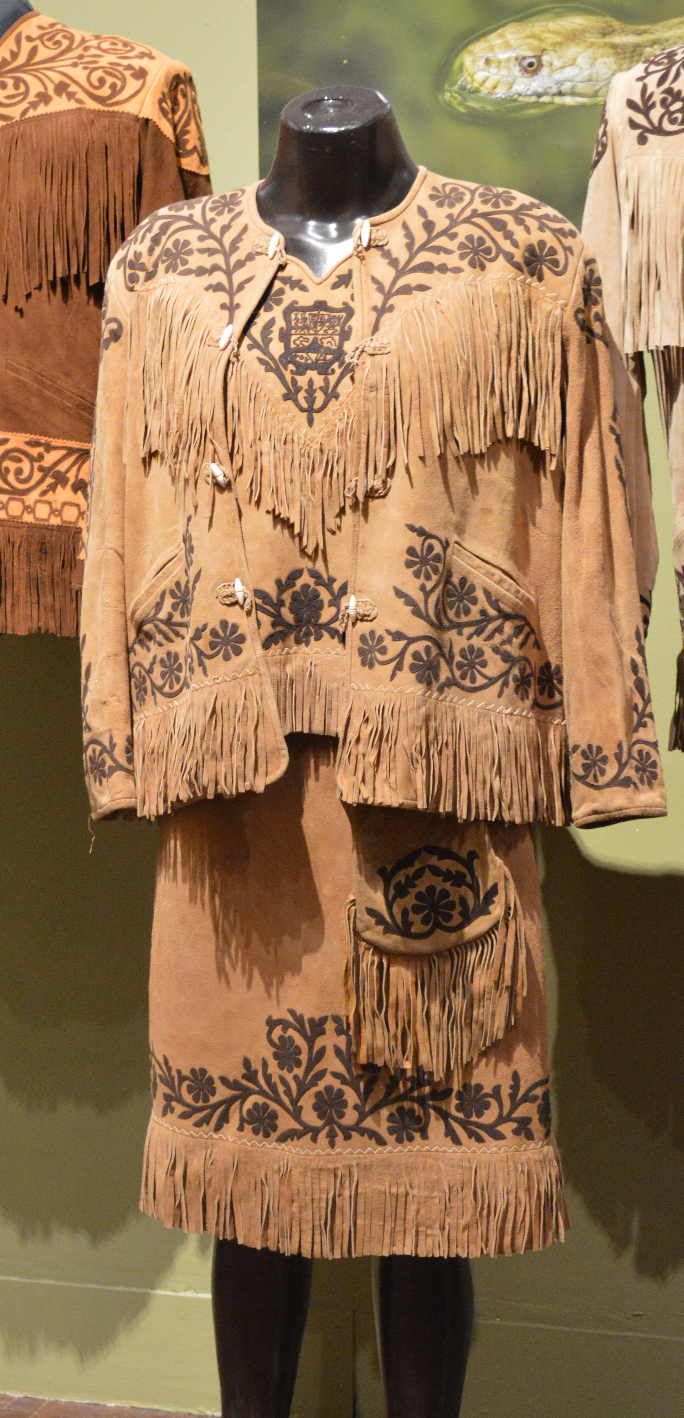 Fringed leather jacket called a cuera and skirt worn to dance to huapangos and sones from Tamaulipas at the El Norte, su materia, su artesania at the Museo de Arte Popular in Mexico City